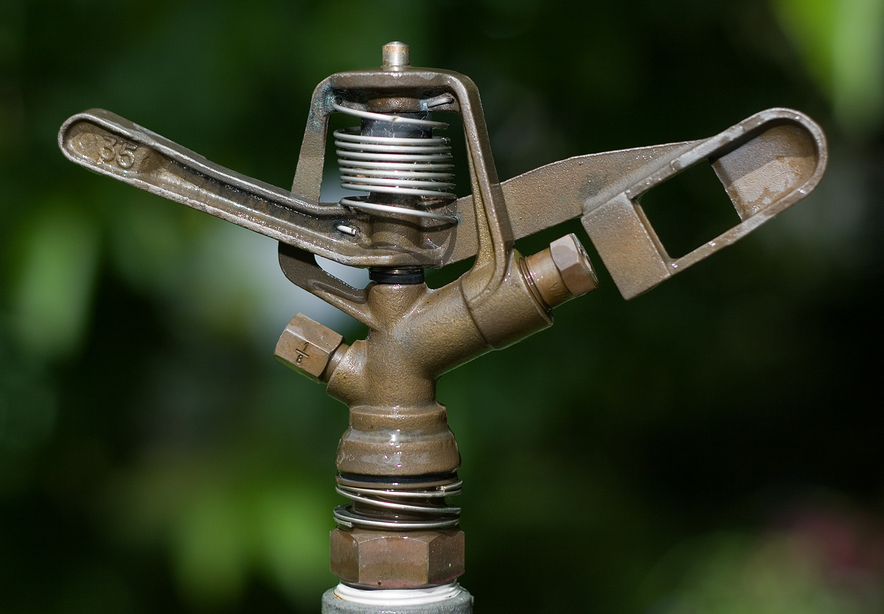 Impact Sprinkler Mechanism